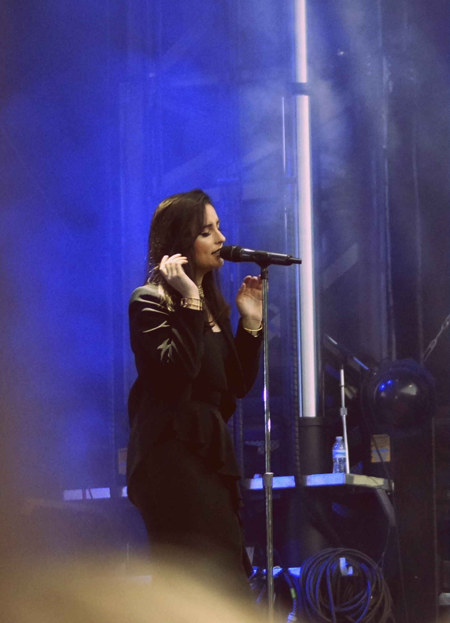 Banks performing at Lollapalooza 2015 More freely usable Lollapalooza 2015 Pictures.